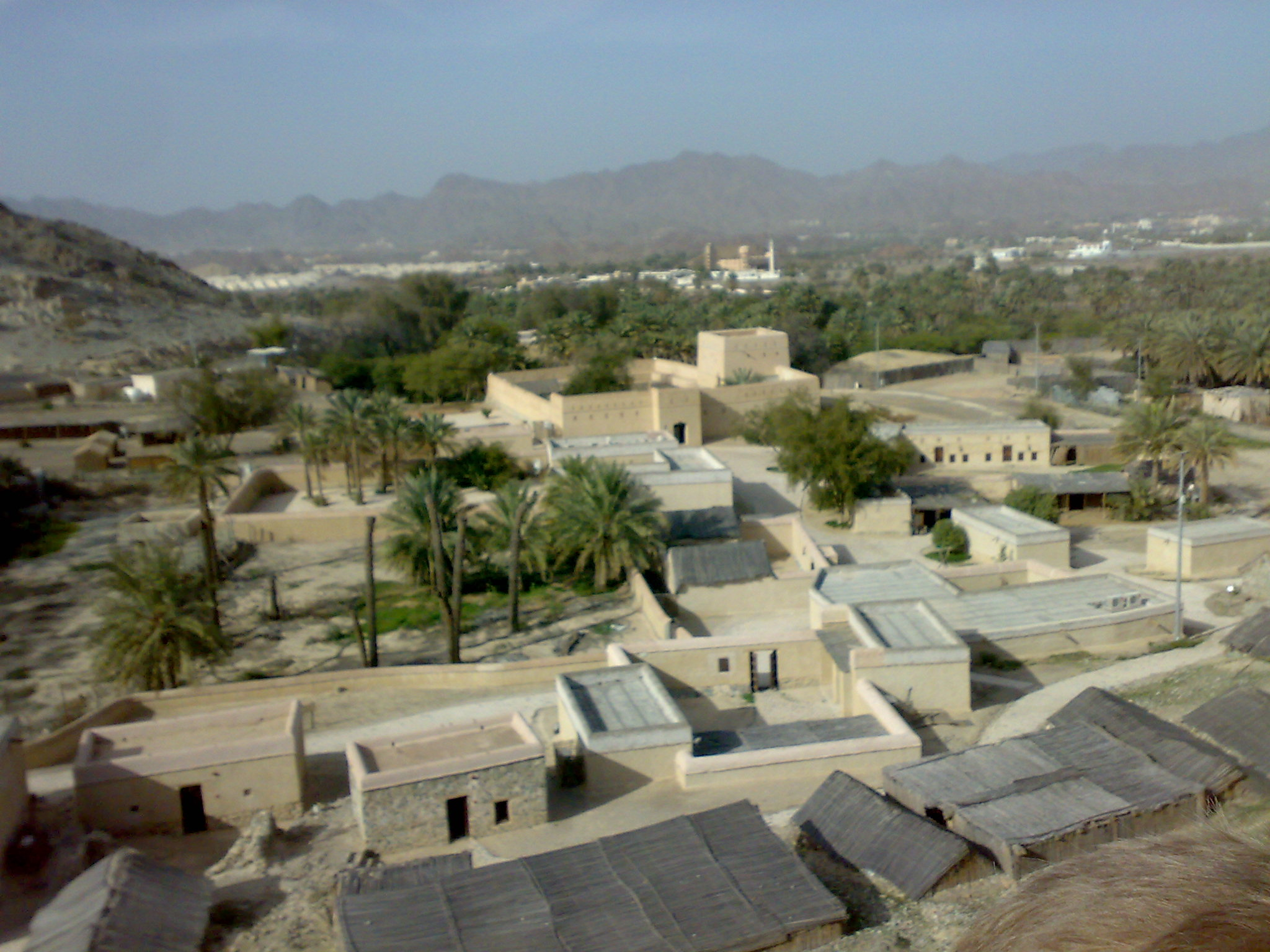 Reconstruction of late 19th century Hatta - Hatta Heritage Village. An outdoor museum around Hatta Fort (c.1880), Hatta city, UAE.